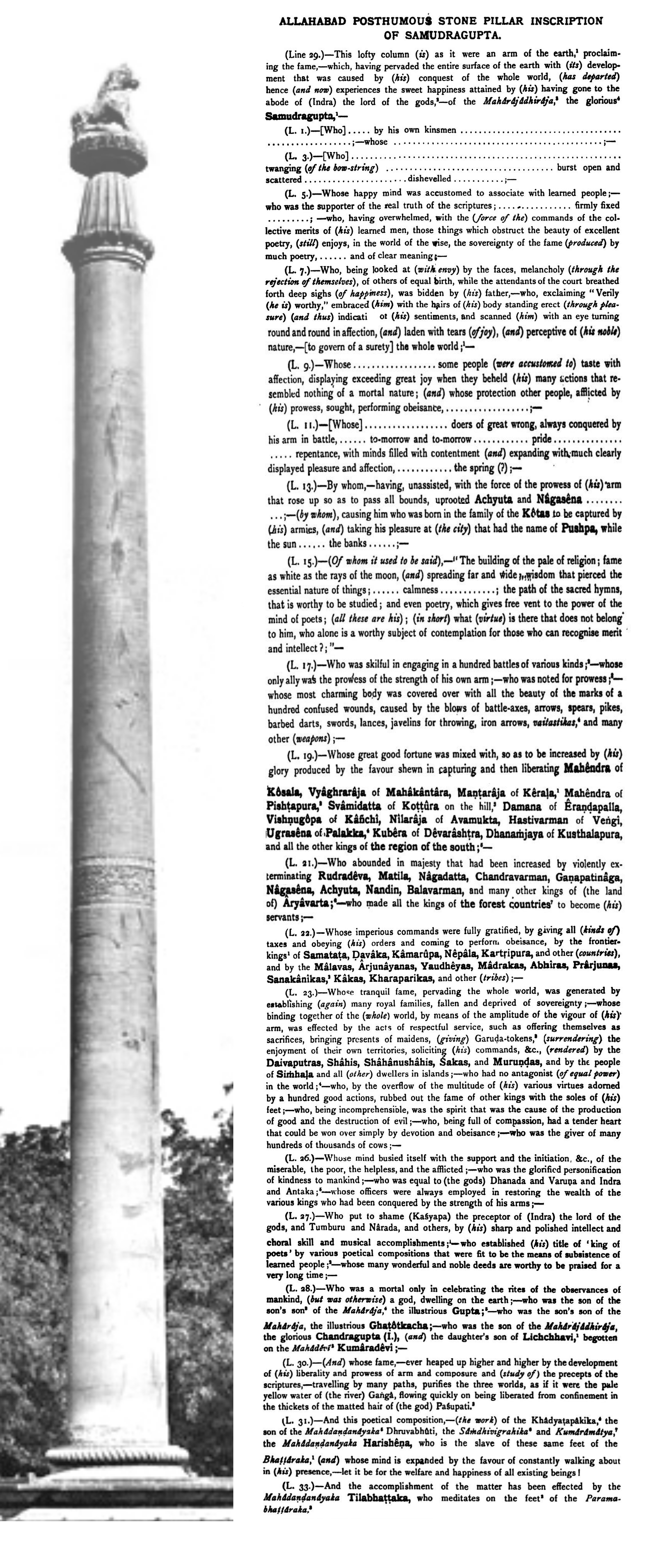 Hallahabad inscription of Samudragupta